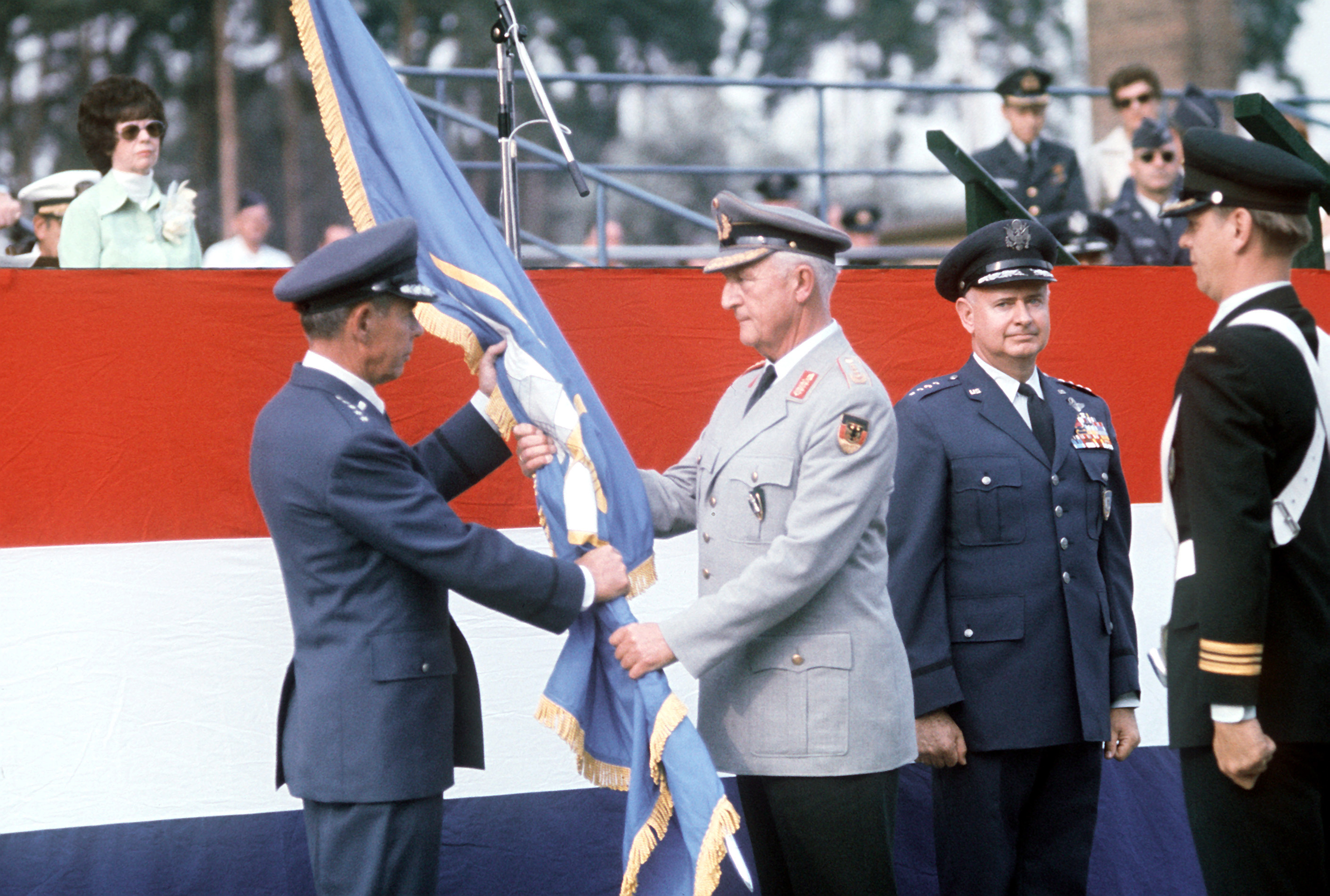 GEN Richard H. Ellis, incoming commander, receives the NATO flag from GEN Ernst Ferber, German Army, as GEN John W. Vogt, outgoing commander, stands by during the Allied Air Force Central Europe (AAFCE) change of command. Location: Ramstein Air Base, Rheinland-Pfalz, Germany.